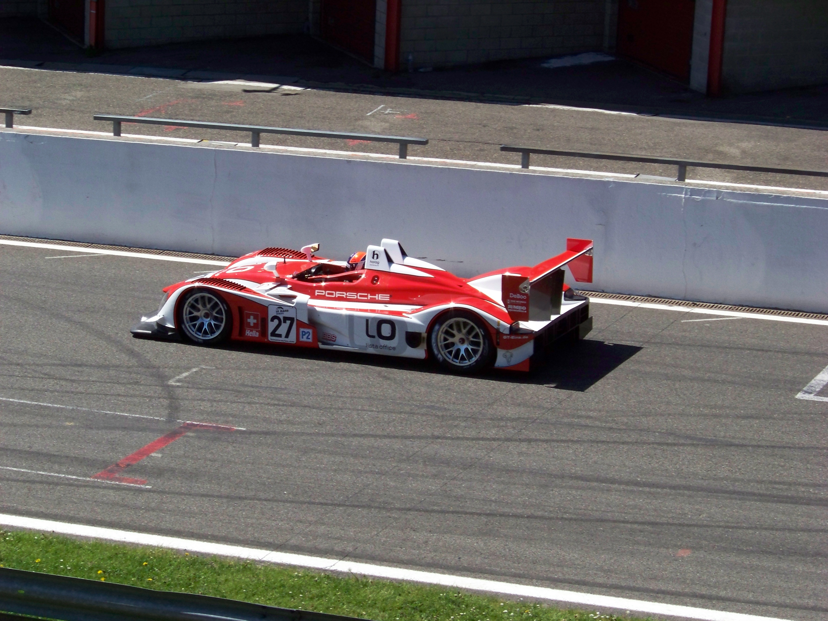 Horag Racing's Porsche RS Spyder at the 2008 1000km of Spa.